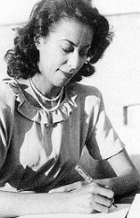 Simin daneshvar